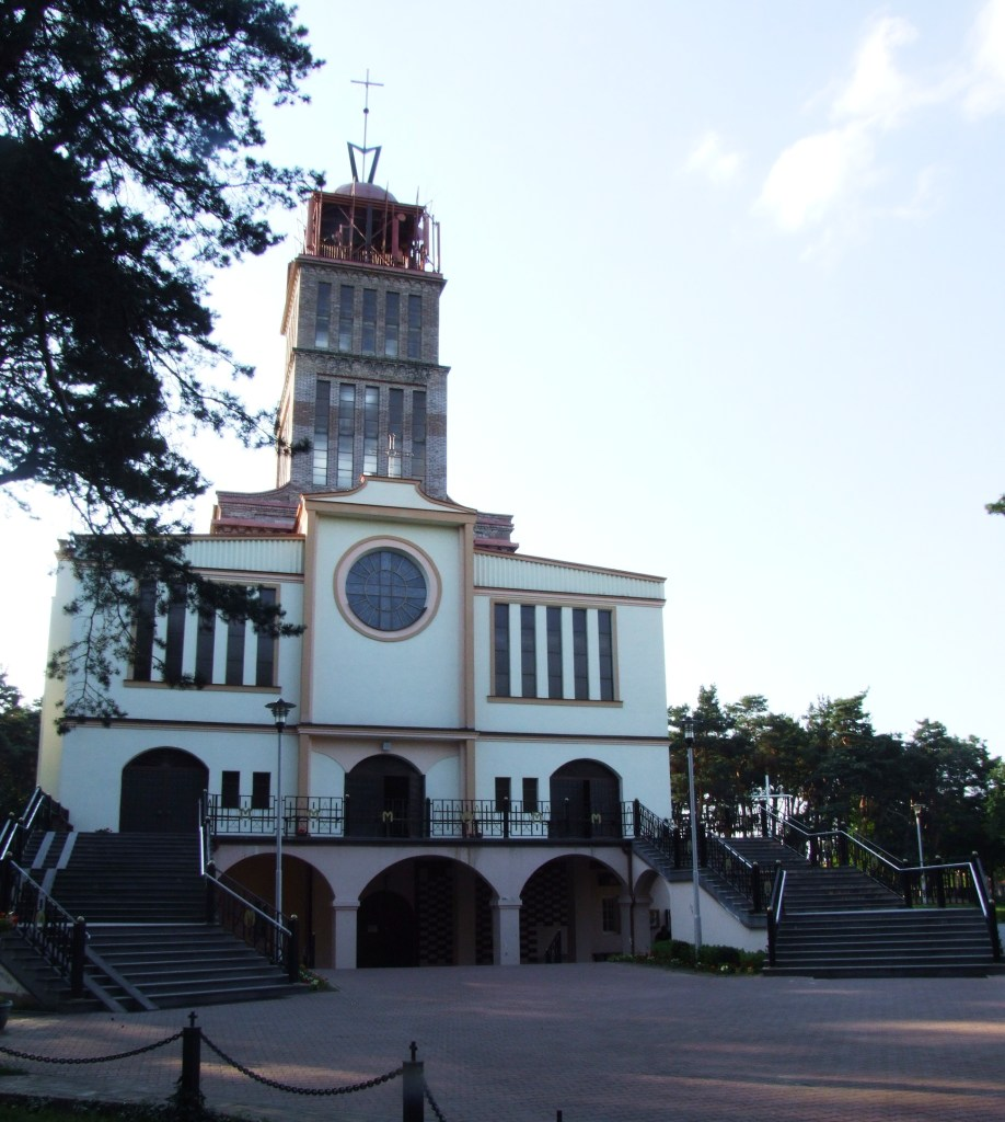 Our Lady of La Salette's Church in Ostrowiec Swietokrzyski